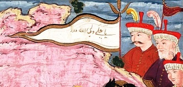 Flag used in iran troops in the Battle between Shah Ismail and Shaybani Khan.